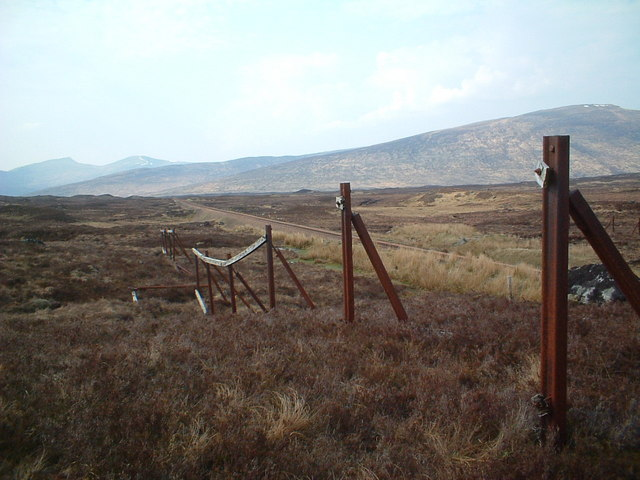 The rail line approaching Corrour and an old snowfence ?